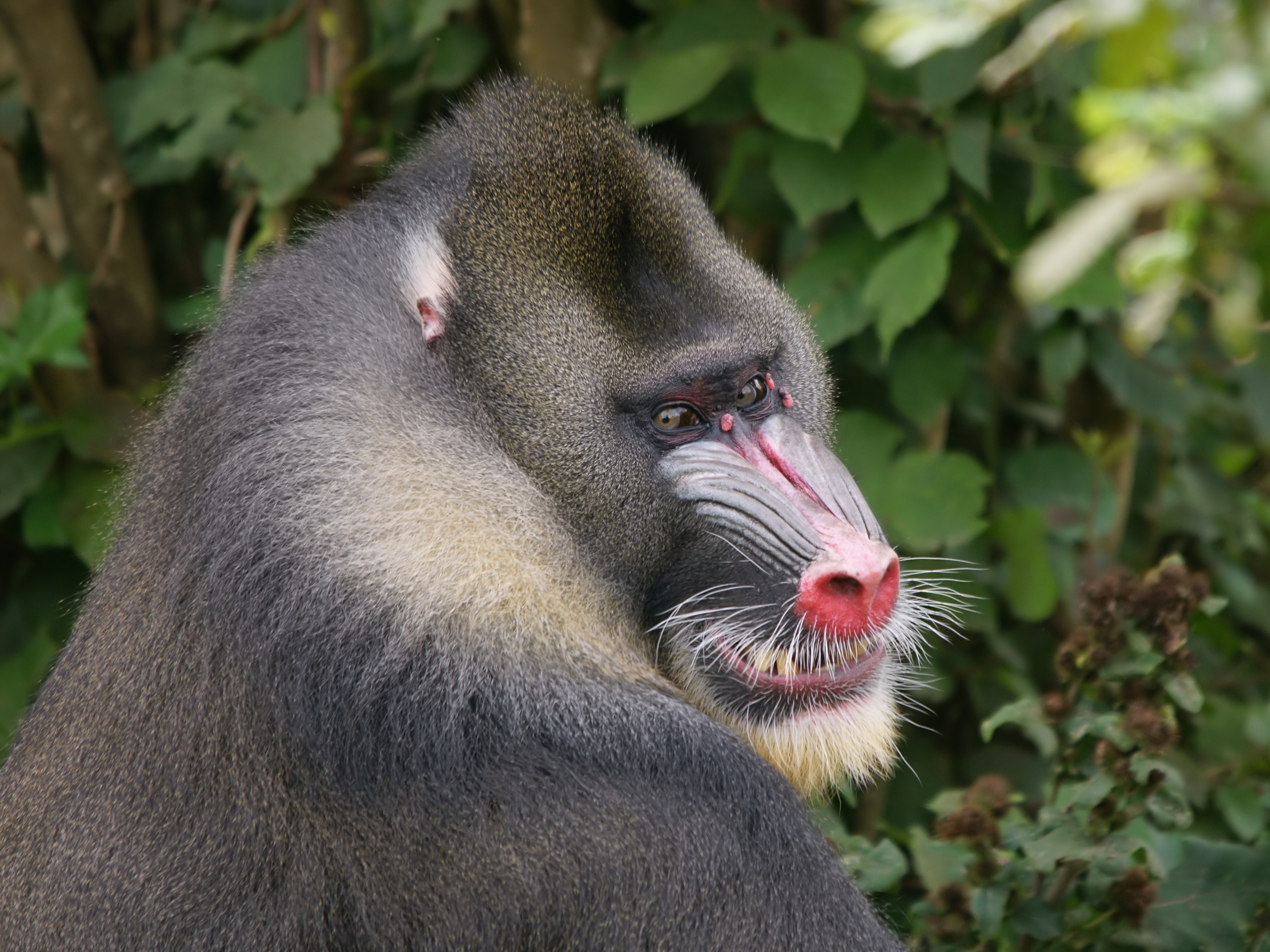 Alpha male Mandrill at La Vallée de Singes, at Romagne (Vienne, Poitou-Charentes), France.